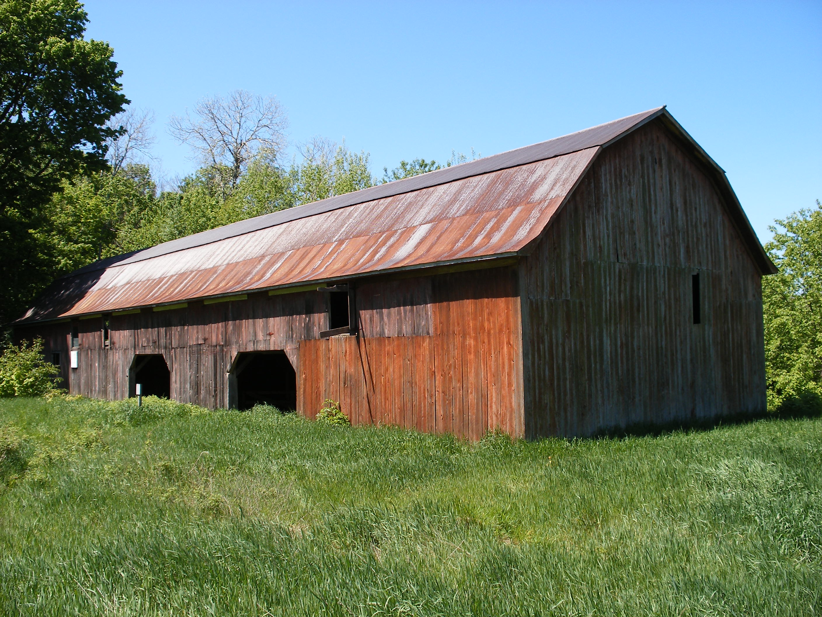 Swenson's Barn on North Manitou Island. This picture was taken by Wade Renando while backpacking on North Maniotu Island in the spring of 2007.